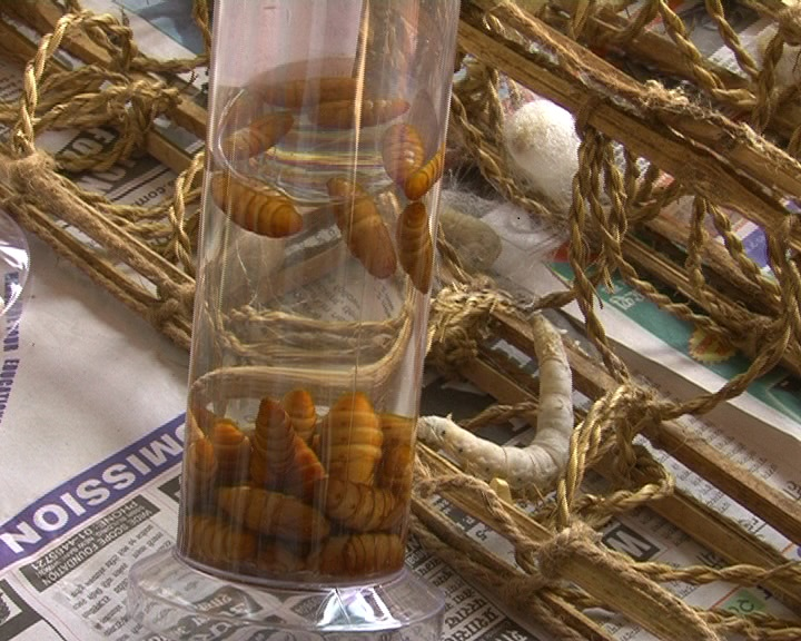 Pupa of Silk worm_nepal